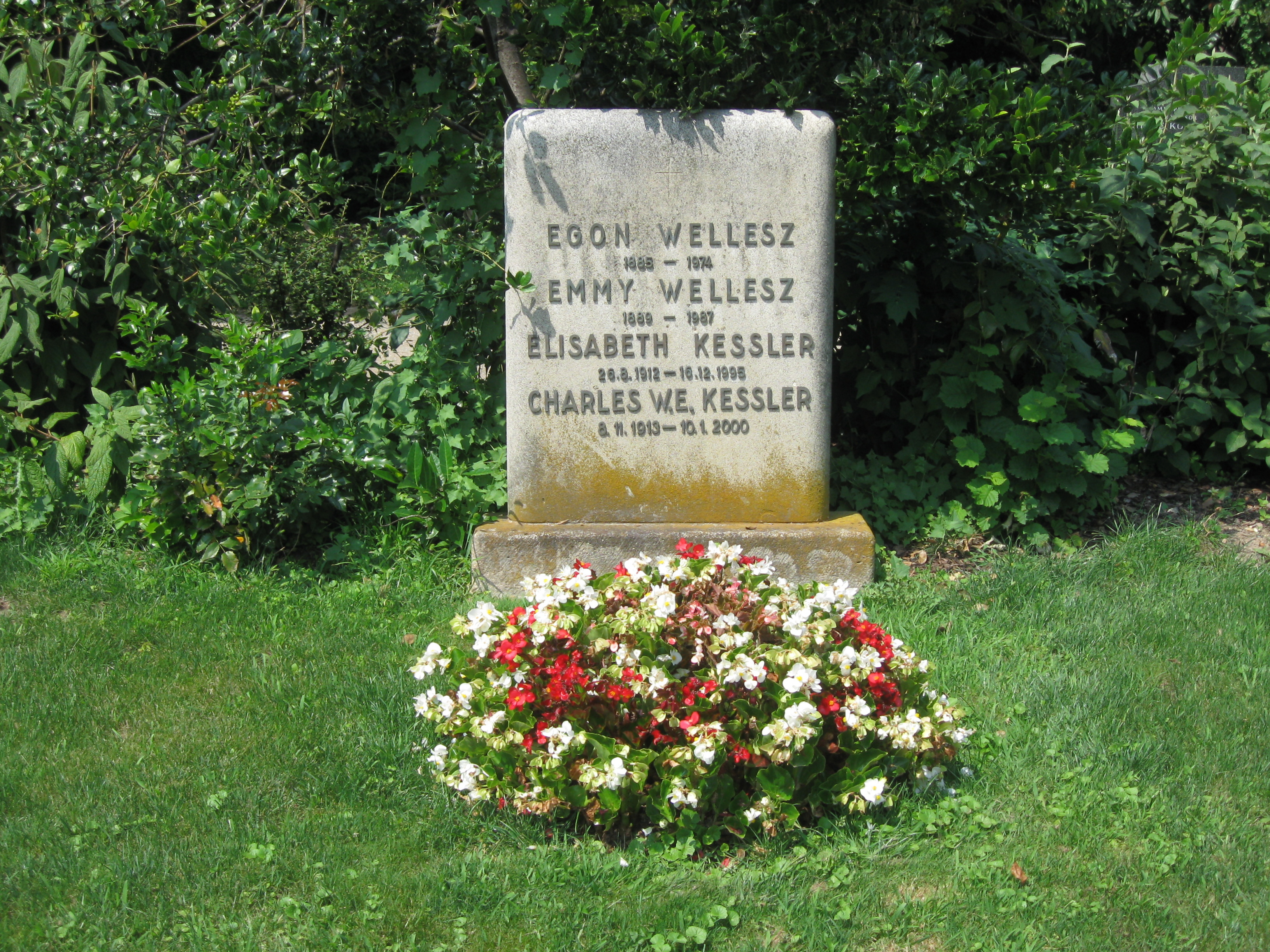 Grave of Egon Wellesz, his wife Emmy Wellescz, his daughter Elisabeth Kessler (1912–1995) and Charles W. E. Kessler (1913-2000) at the Zentralfriedhof in Vienna, group 32 C